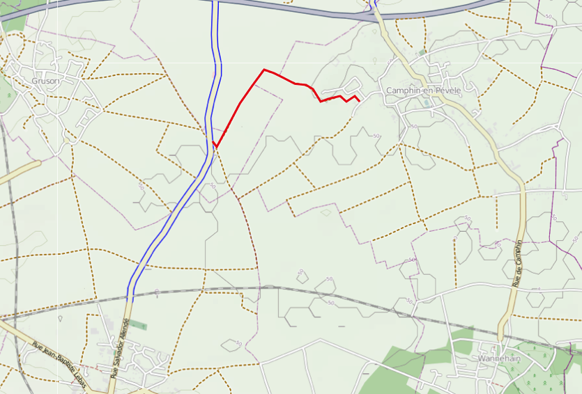 Carrefour de l'Arbre cobbled sector, 2.1 km, 5 star.